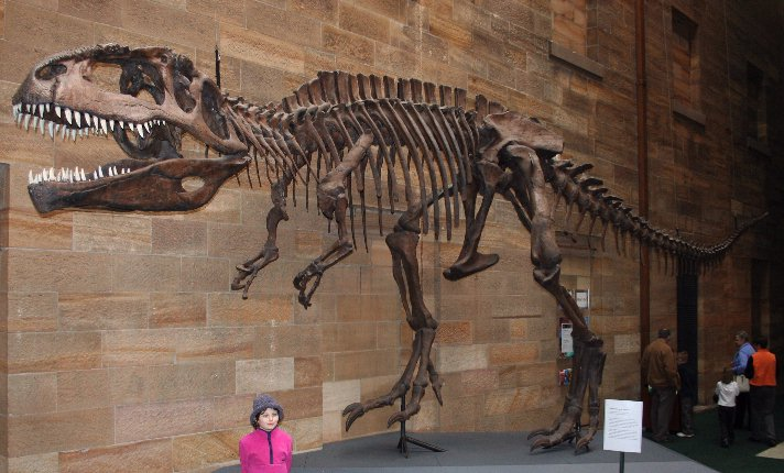 Giganotosaurus skeleton replica, Australian Museum Sydney Cas Liber - photo